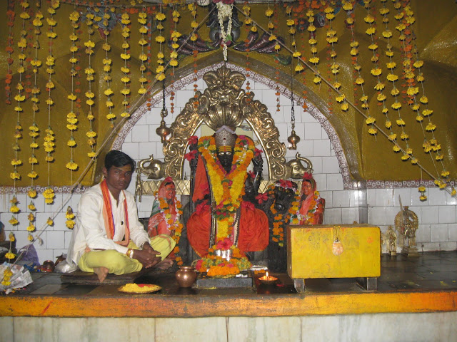 Mailar Mallanna temple Main God idol and Mailar mallanna temple situated 15 from Bidar (karnataka)